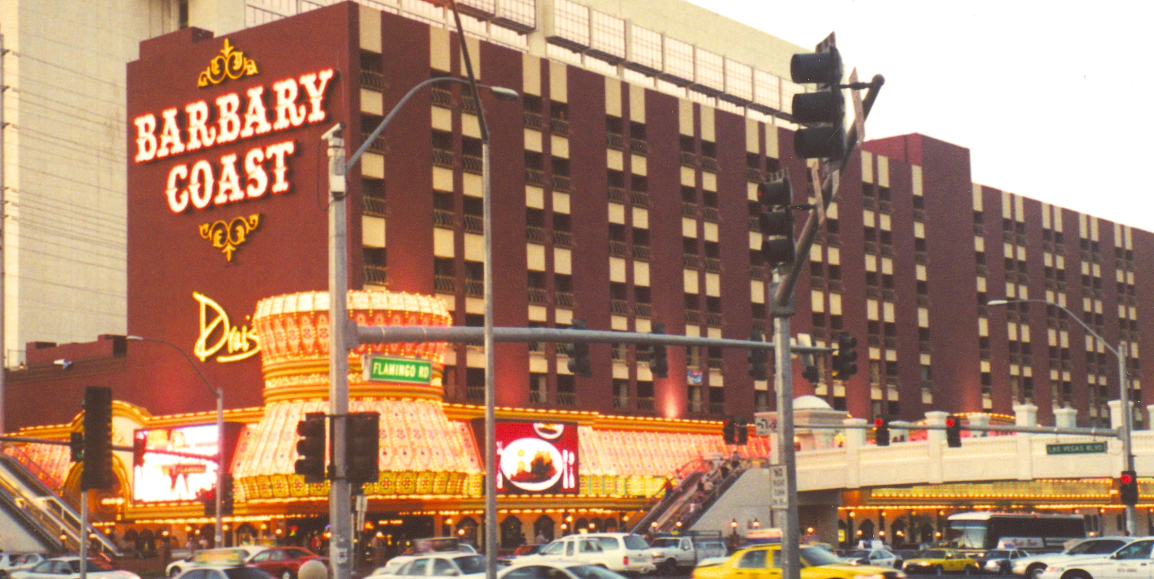 The front of the Barbary Coast Hotel and Casino located in Paradise, Nevada, part of the Las Vegas Valley area.